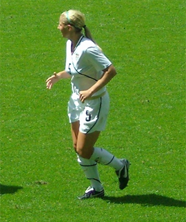 Soccer player Kendall Johnson